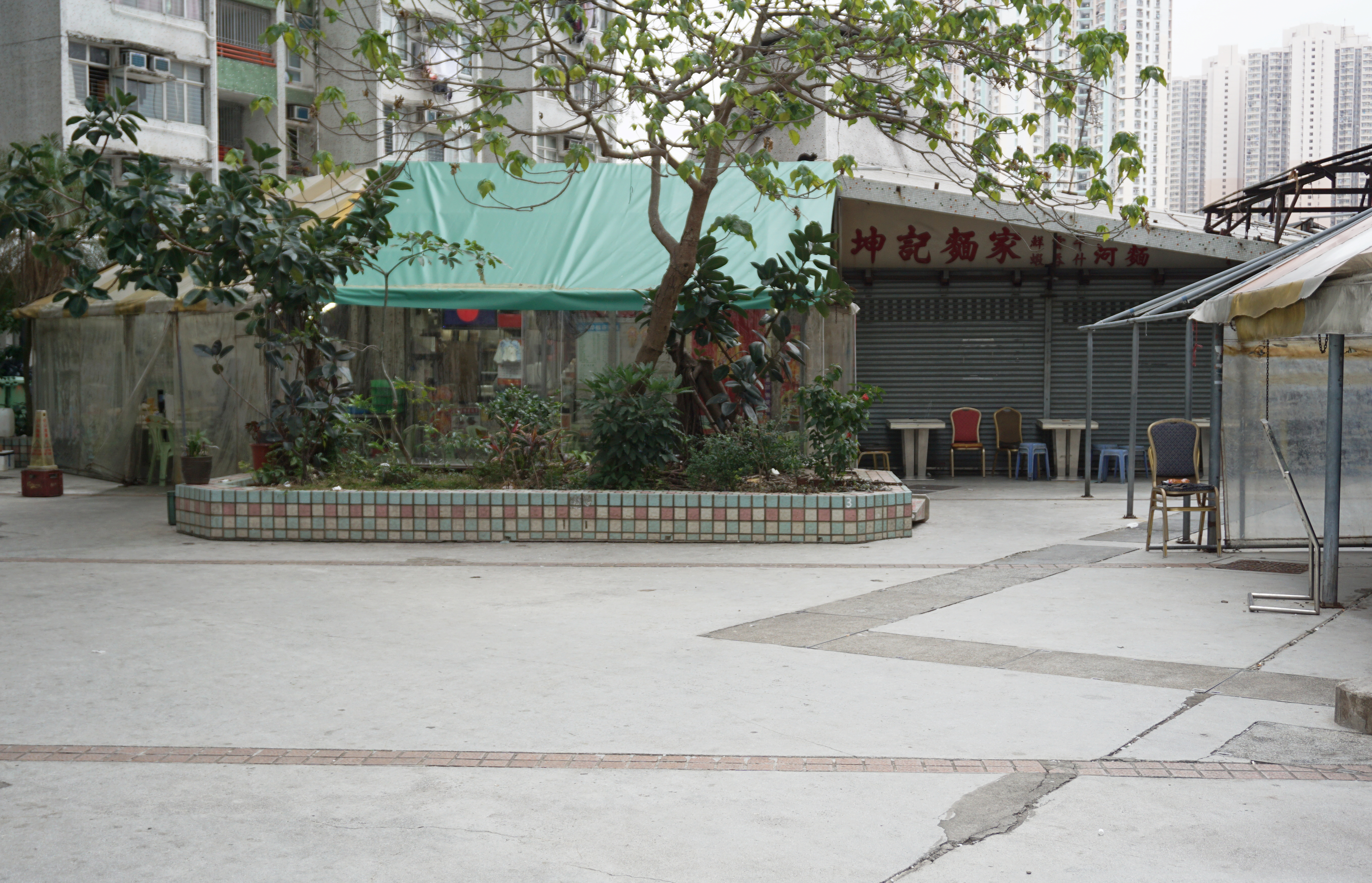 Hing Tin Estate in Lam Tin, Hong Kong.